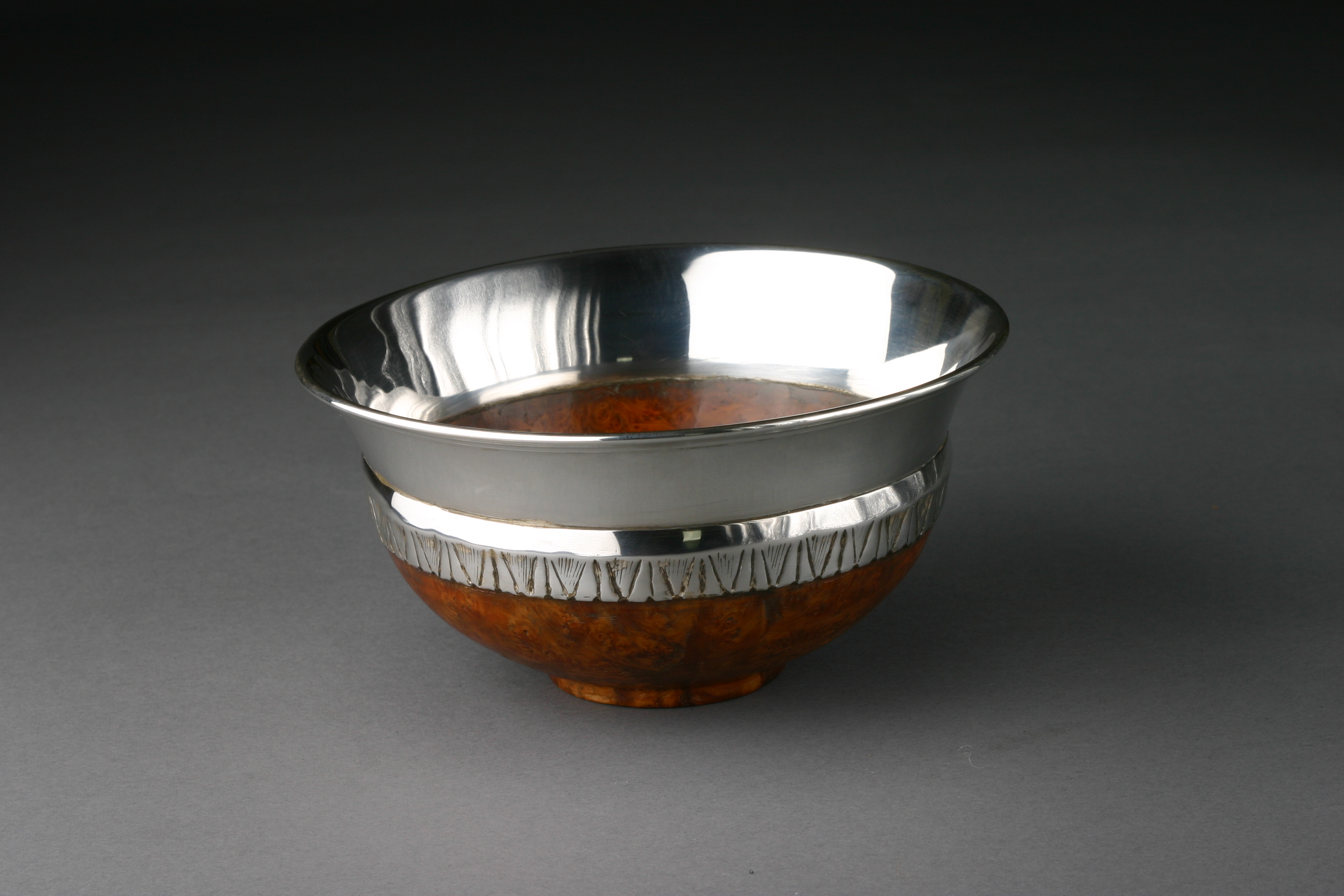 Mazer, burr rowan and silver by Robin Wood now in the collection of Dr Rowan Williams, Archbishop of Canterbury